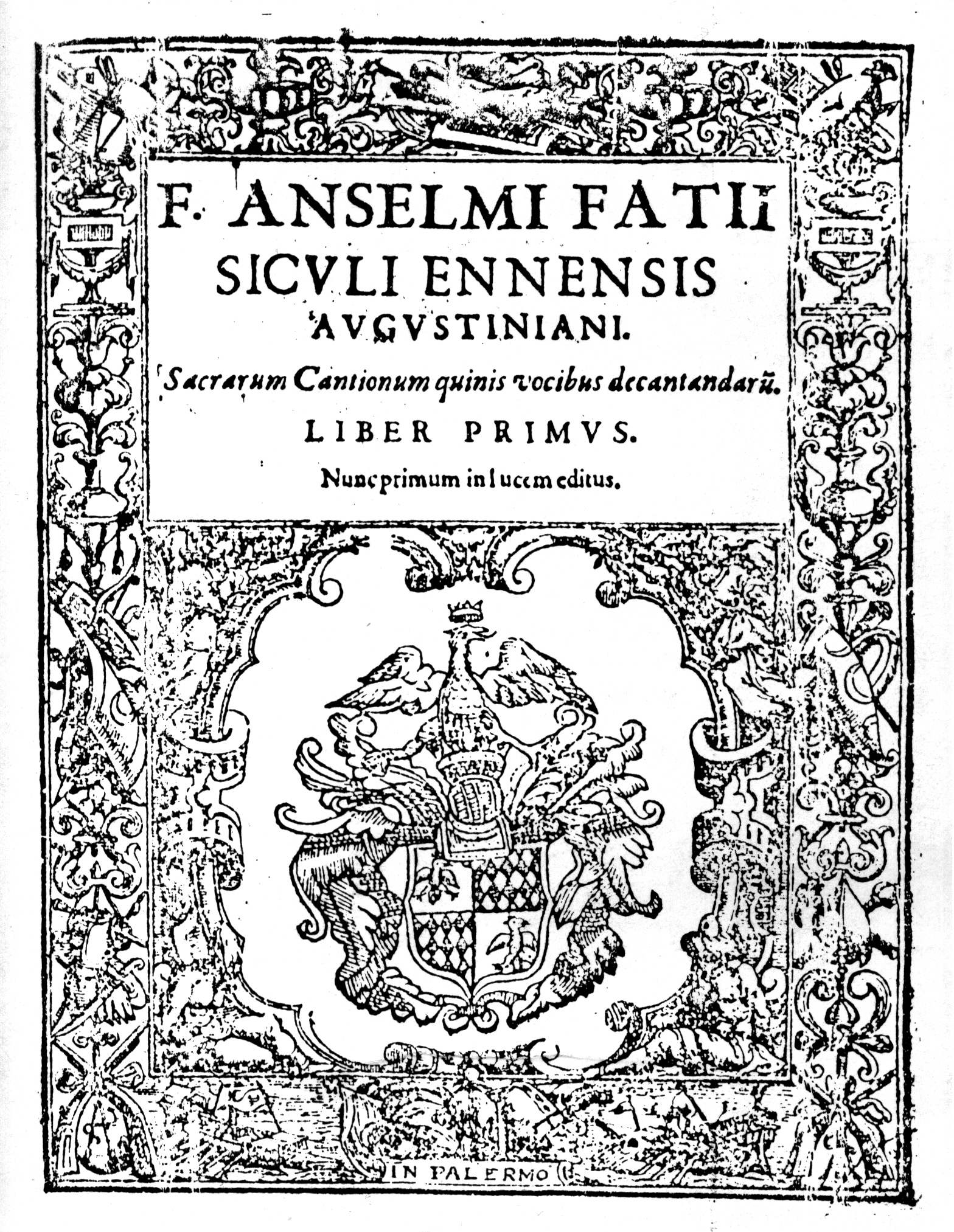 Sacrarum Cantionum quinis vocibus dacantandarum Frate Anselmo Fazio